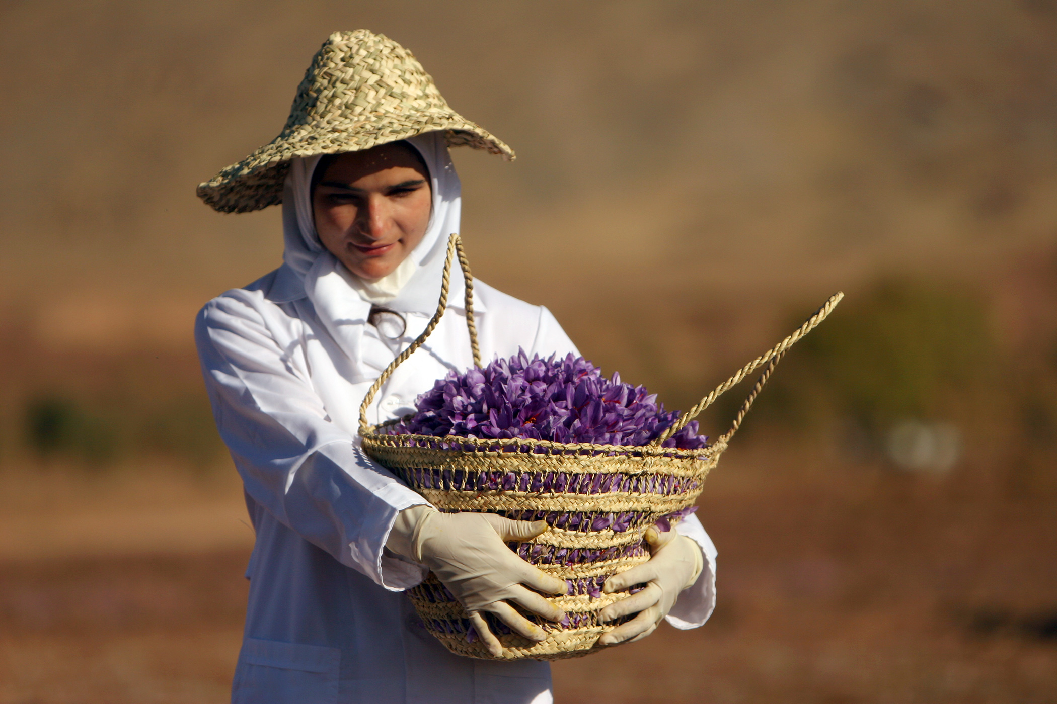 October 30, 2007 - Saffron farm, Torbat-e Heydarieh, Razavi Khorasan Province, Iran - Photo by: Safa Daneshvar - A trip with Faraz Saffron Co. Ltd.Friends, colleagues, cooperators, subjects and others in this trips: Mr. Mehdi Ebrahimi (Movie maker), Mr. Amir Moeinian (Movie maker), Mr. Faraz Karimi (Faraz Saffron manager), the farm owners and farmers...